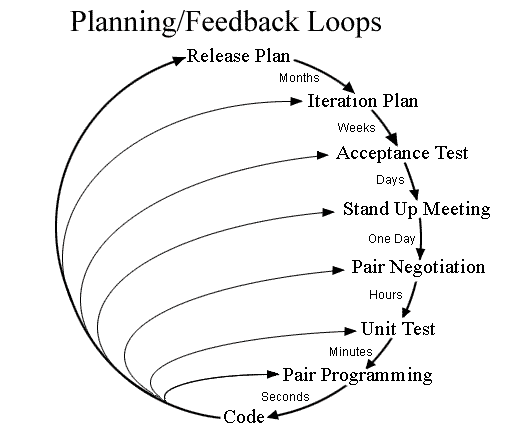 Extreme Programming (XP) requires planning and feedback at many levels and many frequencies.